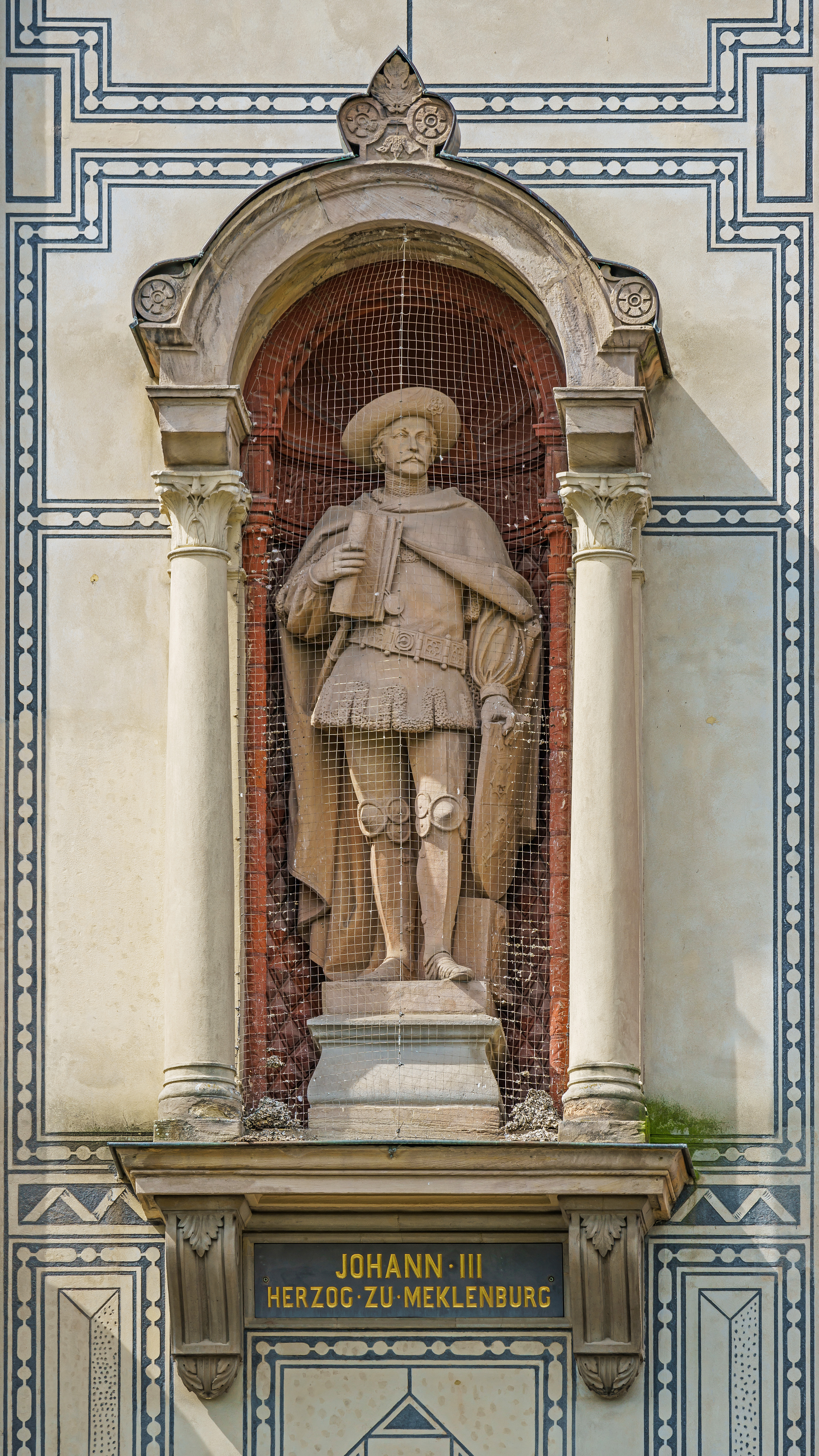 Main building of the university in Rostock, Germany